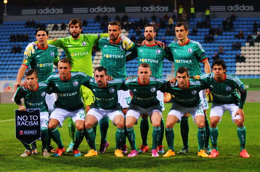 Legia Warszawa 2014